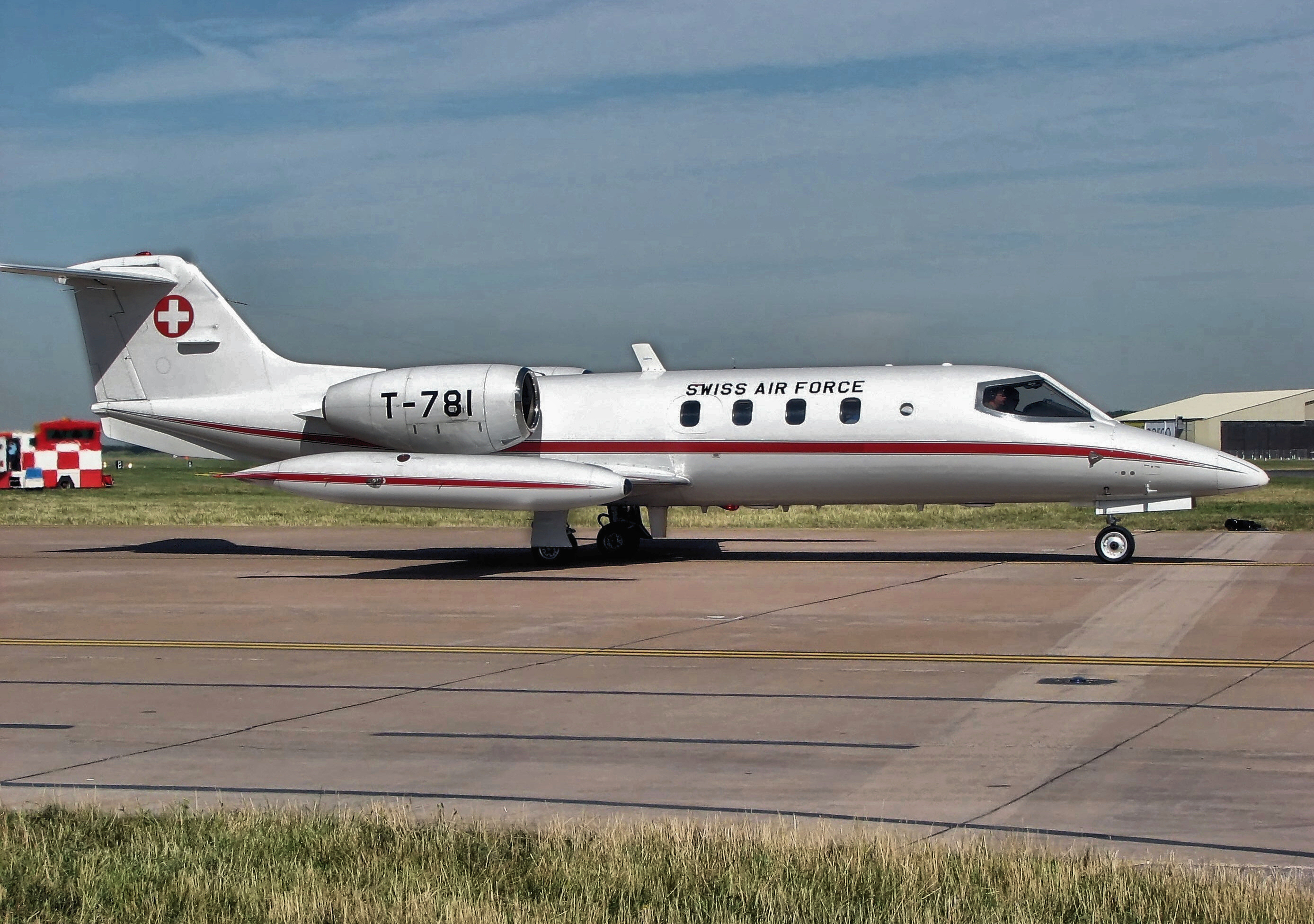 Swiss Air Force Learjet 35A (T-781) at the Royal International Air Tattoo, Fairford, Gloucestershire, England. Photographed by Adrian Pingstone on July 17th 2006 and released to the public domain.